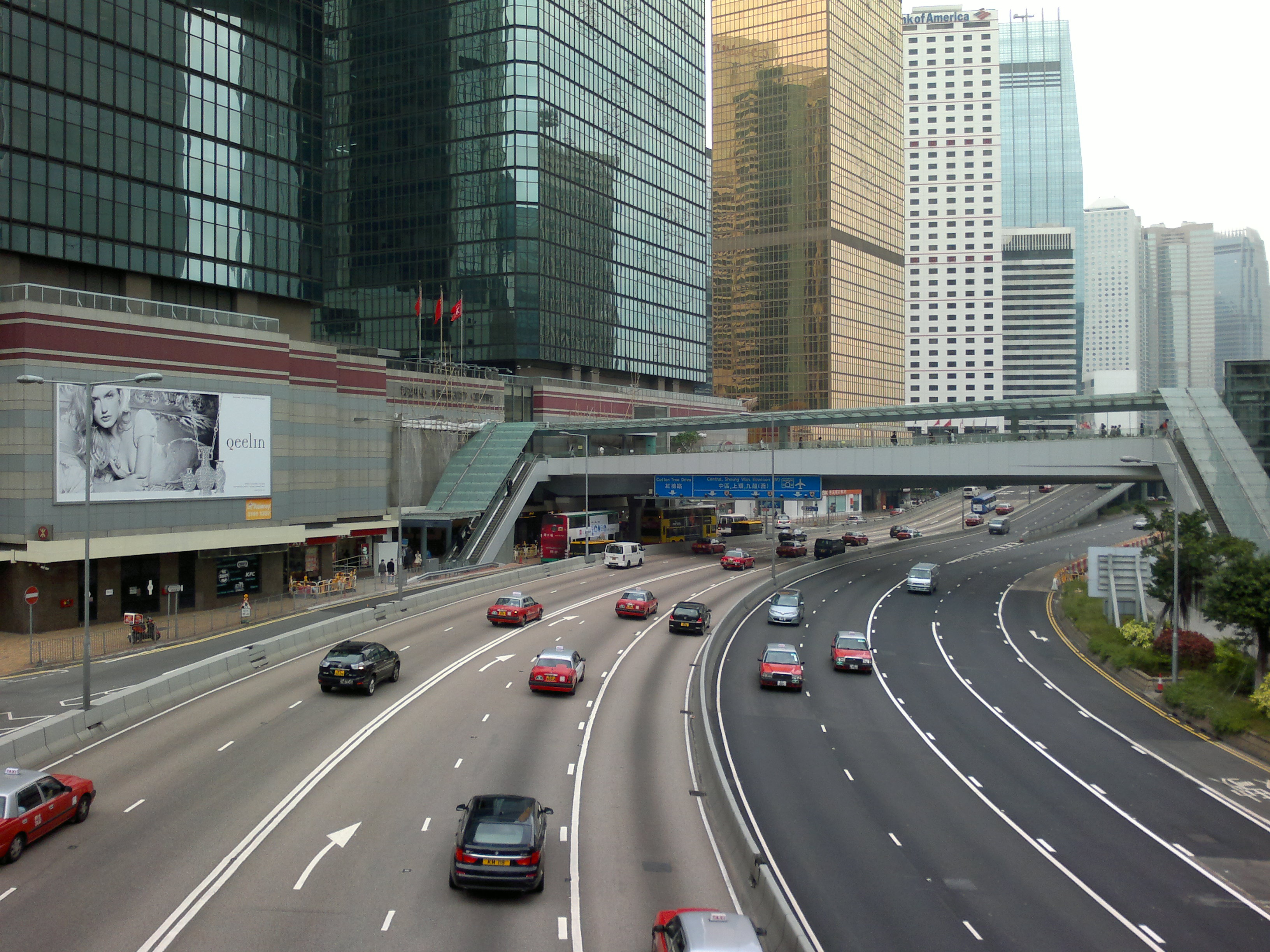 Harcourt Road near Admiralty Centre